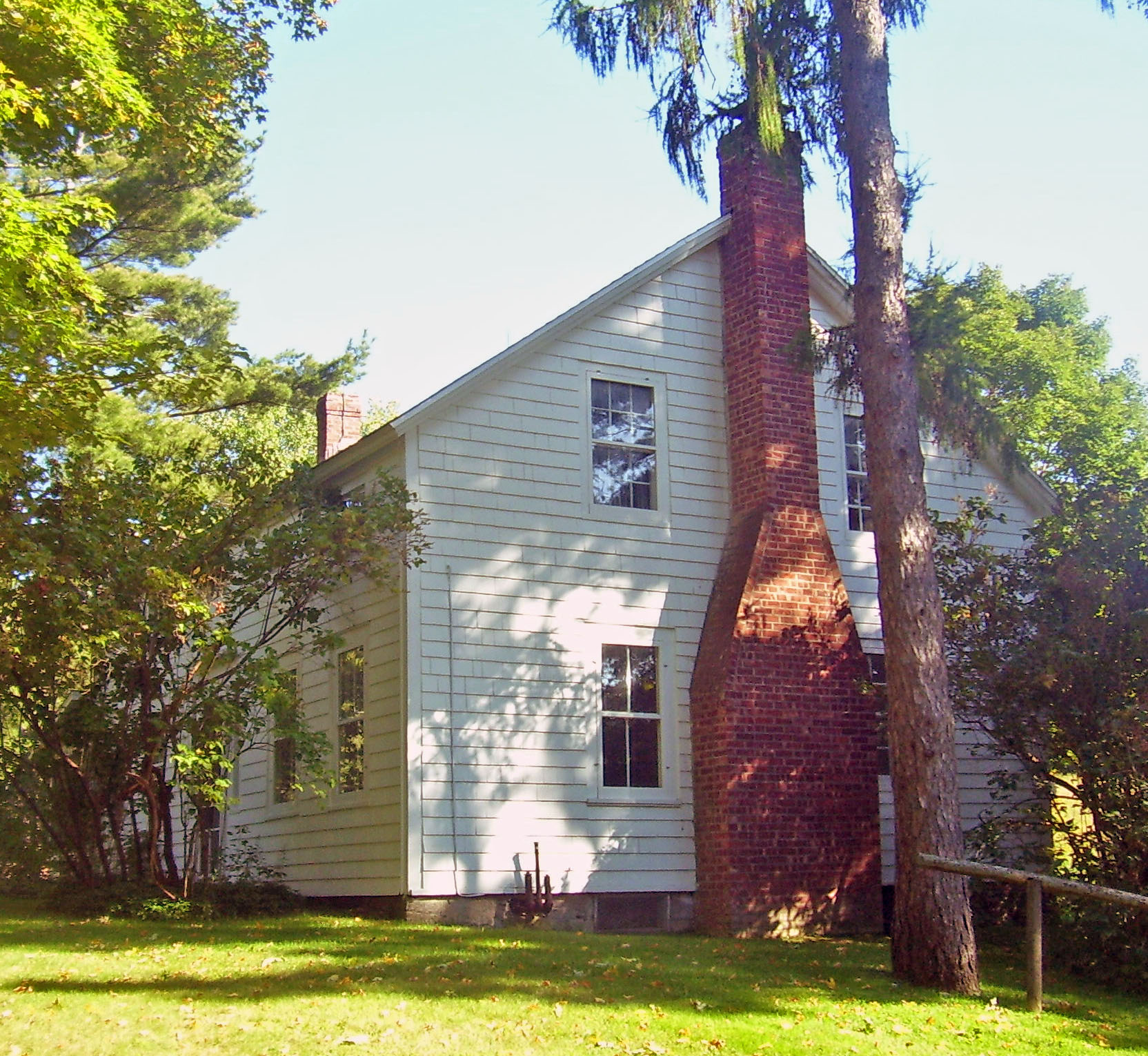 Guest house at Steepletop, Austerlitz, NY, USA, the home of poet Edna St. Vincent Millay in the later years of her life. Currently serves as main offices of Millay Colony for the Arts